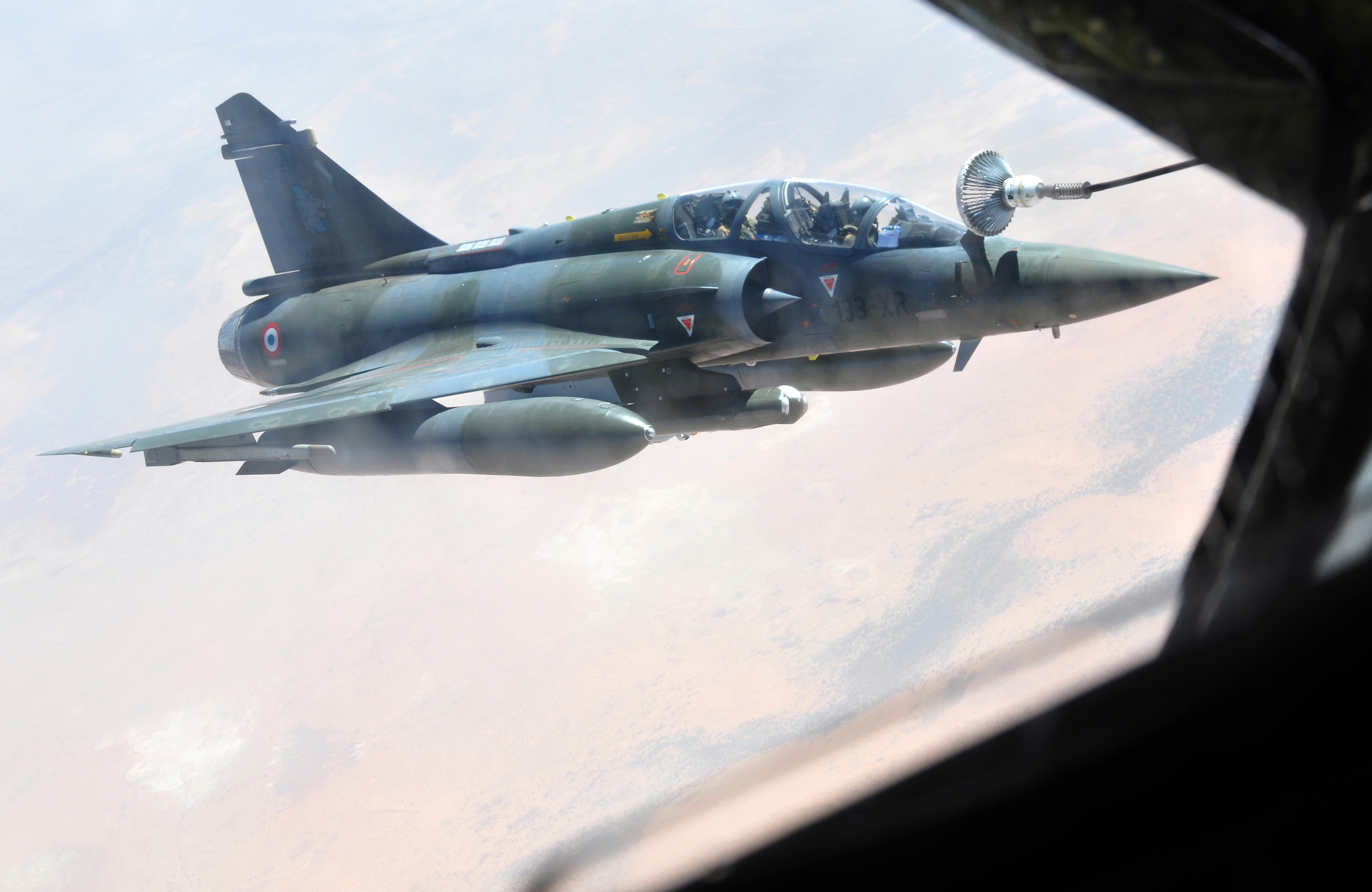 A French Mirage fighter refuels from a U.S. Air Force KC-135 Stratotanker from the 100th Air Refueling Wing, RAF Mildenhall, England, over Africa Jan. 30, 2013. Tankers from RAF Mildenhall, operating from a forward-deployed location, began flying refueling missions in support of French operations in Mali Jan. 27, 2013. (U.S. Air Force photo by Capt. Jason Smith)